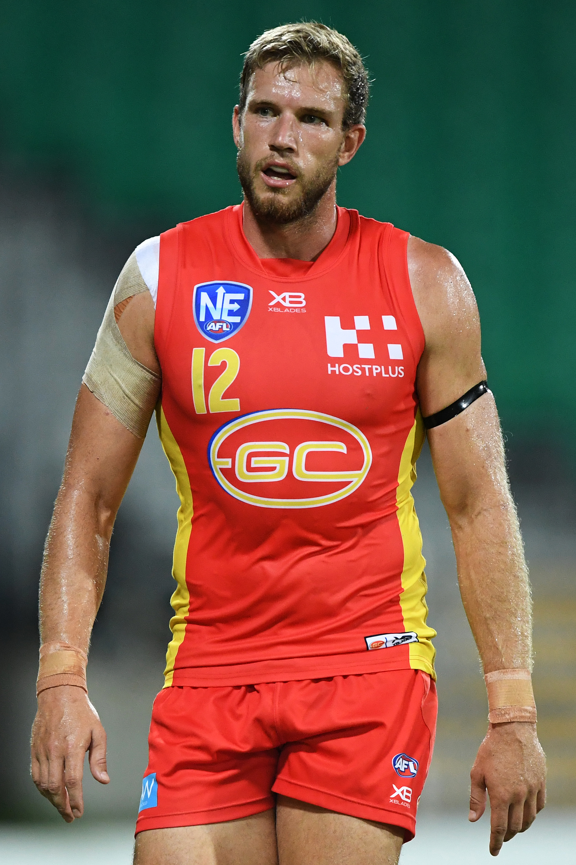 Sam Day of Gold Coast during the 2019 NEAFL round 5 match between NT Thunder and Gold Coast at TIO Stadium on Saturday, 4 May 2019 in Darwin, Australia.